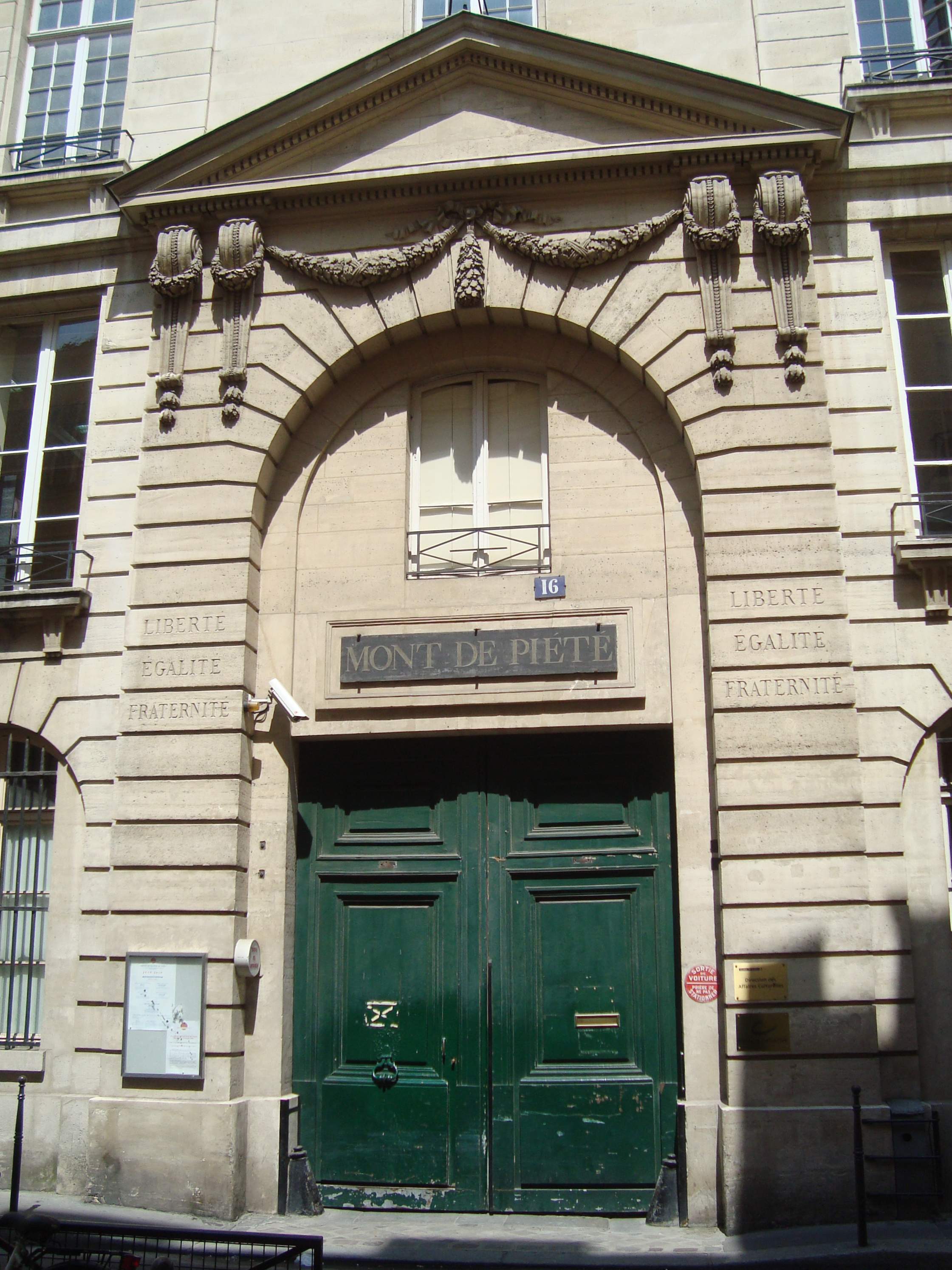 Façade arrière du Mont de Piété, Crédit municipal de Paris, 16 rue des Blancs-Manteaux